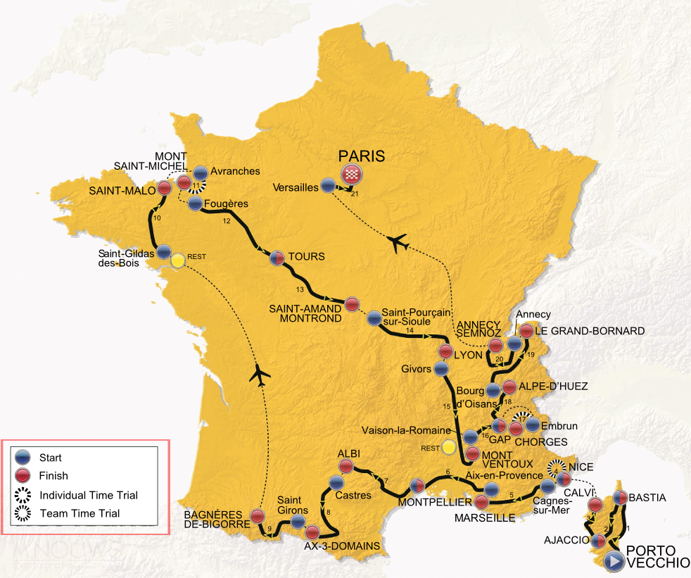 Parcour of the Tour de France 2013